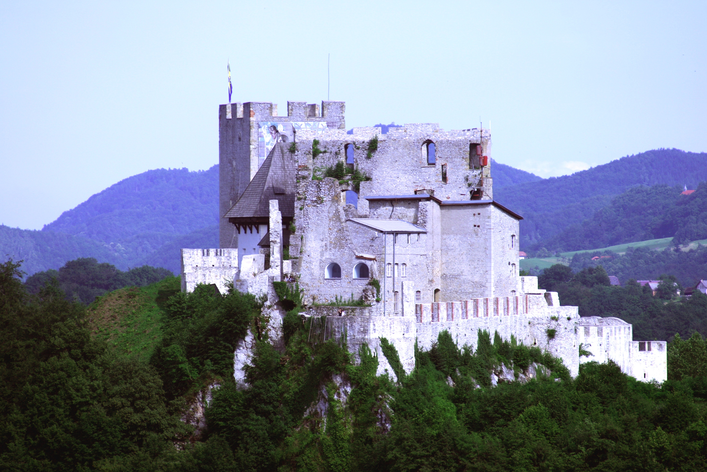 The Celje Castle, a view from Nicholas Hill towards east.